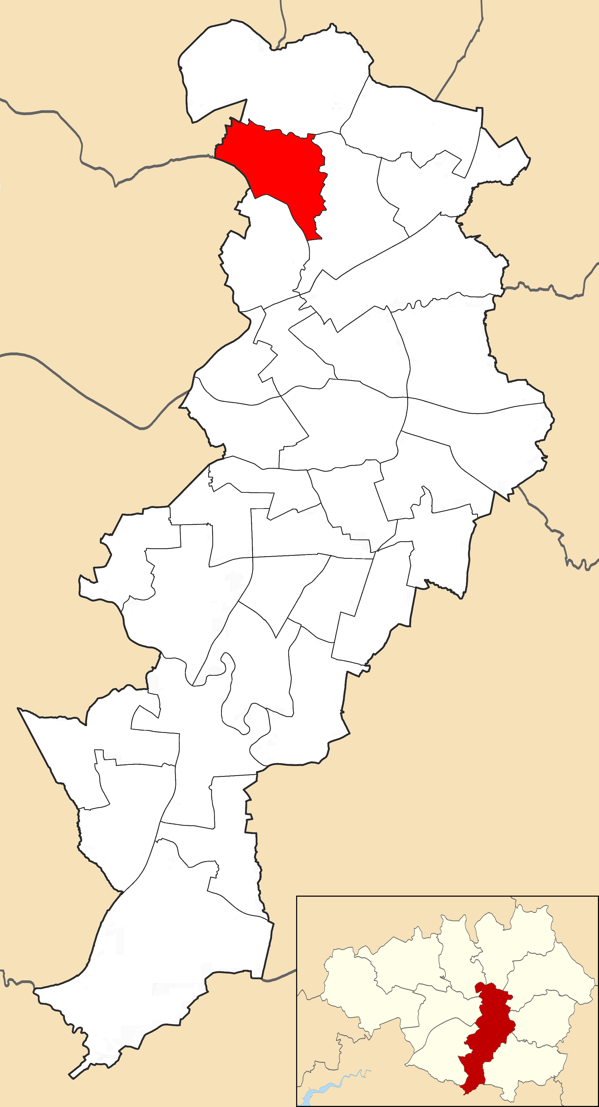 Map showing location of Crumpsall ward within Manchester City Council.